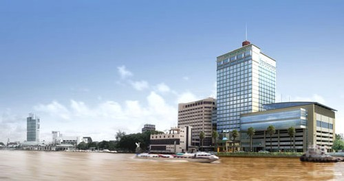 Kingwood Hotel (after extension) in Sibu, Sarawak, Malaysia.